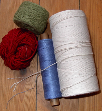 Yarn of cotton, flax and wool